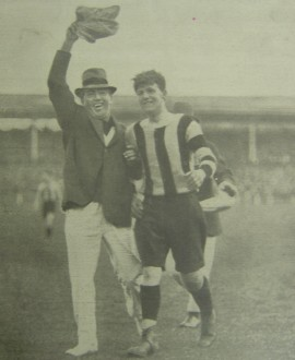 Photograph of Ernie Wilson in 1925